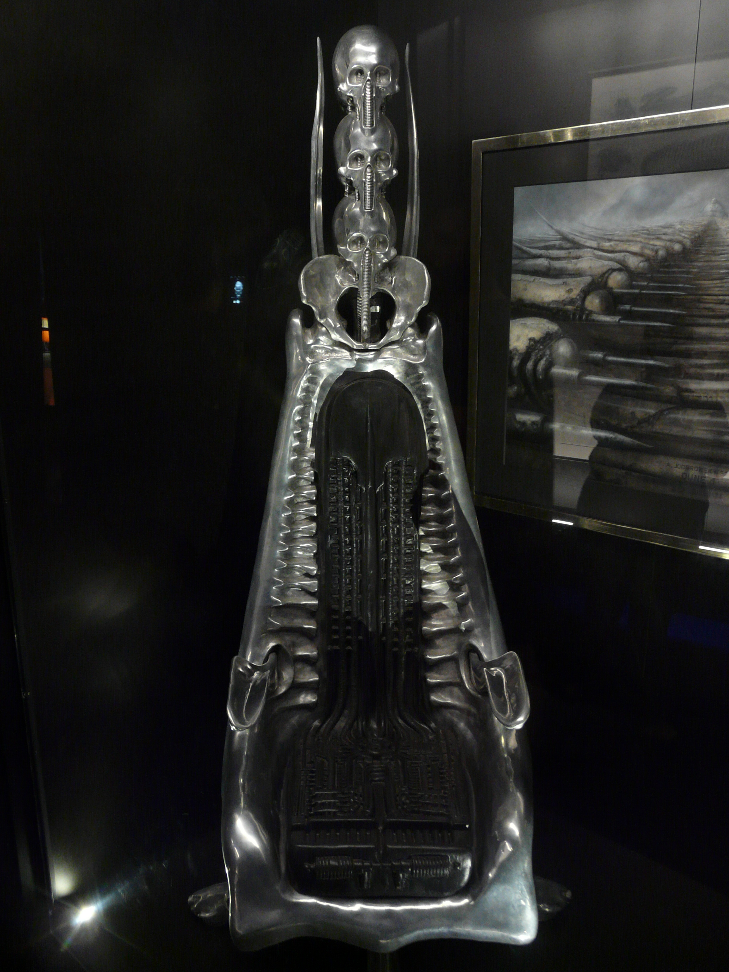 Giger-Designed Harkonnen Chair for Jodorowsky's Dune, Barbican 'Into the Unknown' Exhibition